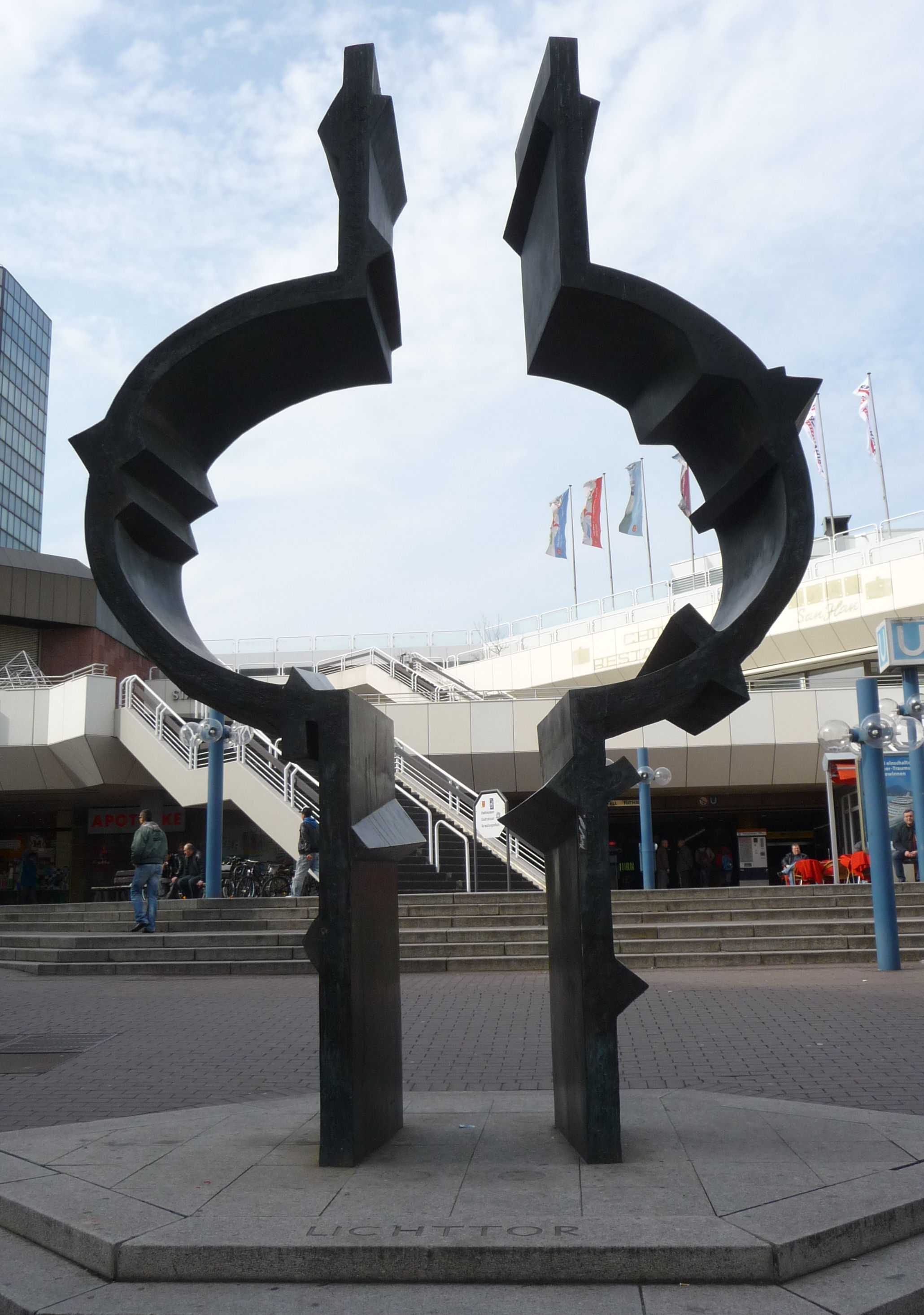 Sculpture (1979) by Wolf Spitzer in Ludwigshafen, Germany